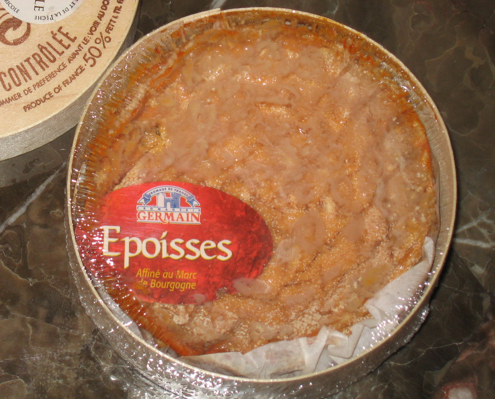 Époisses de Bourgogne cheese.